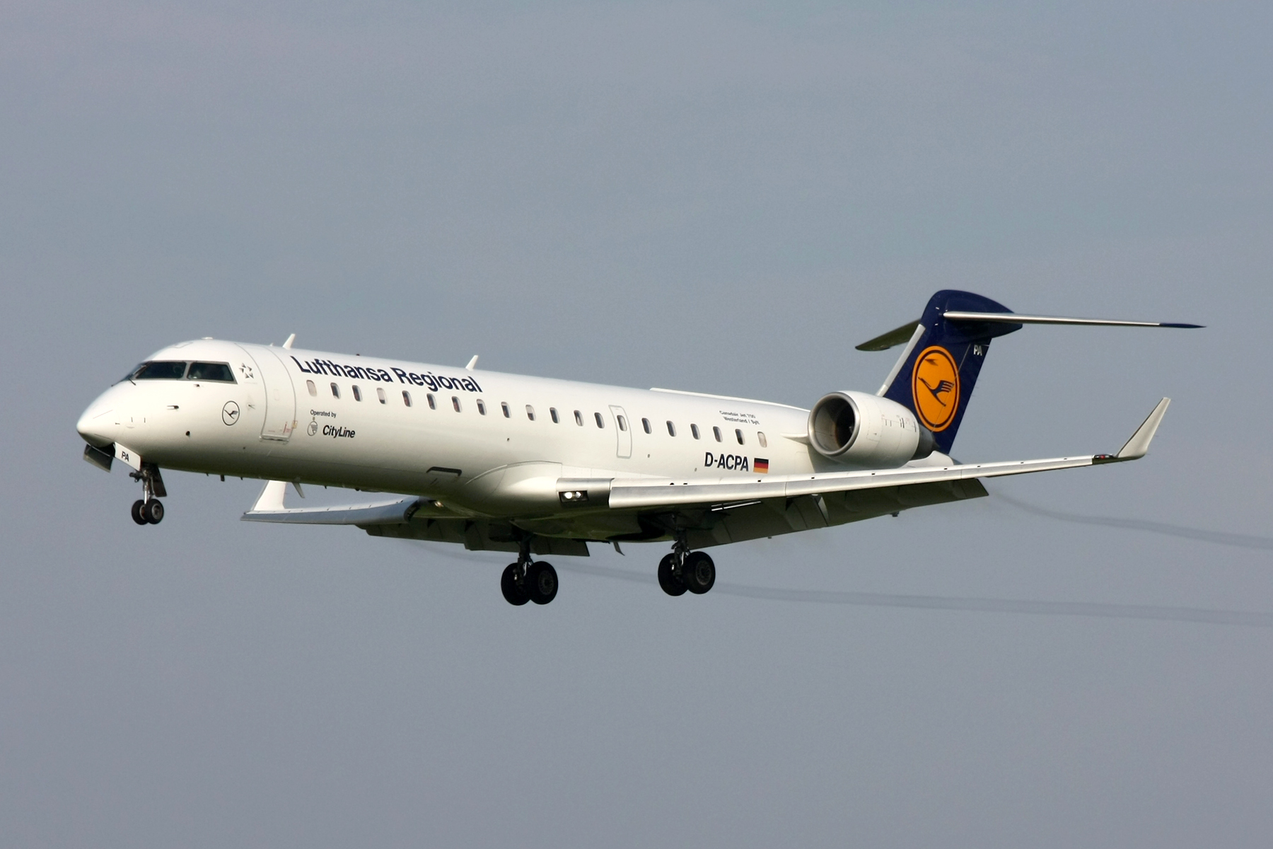 Lufthansa Regional Canadair Regional Jet 700 D-ACPA